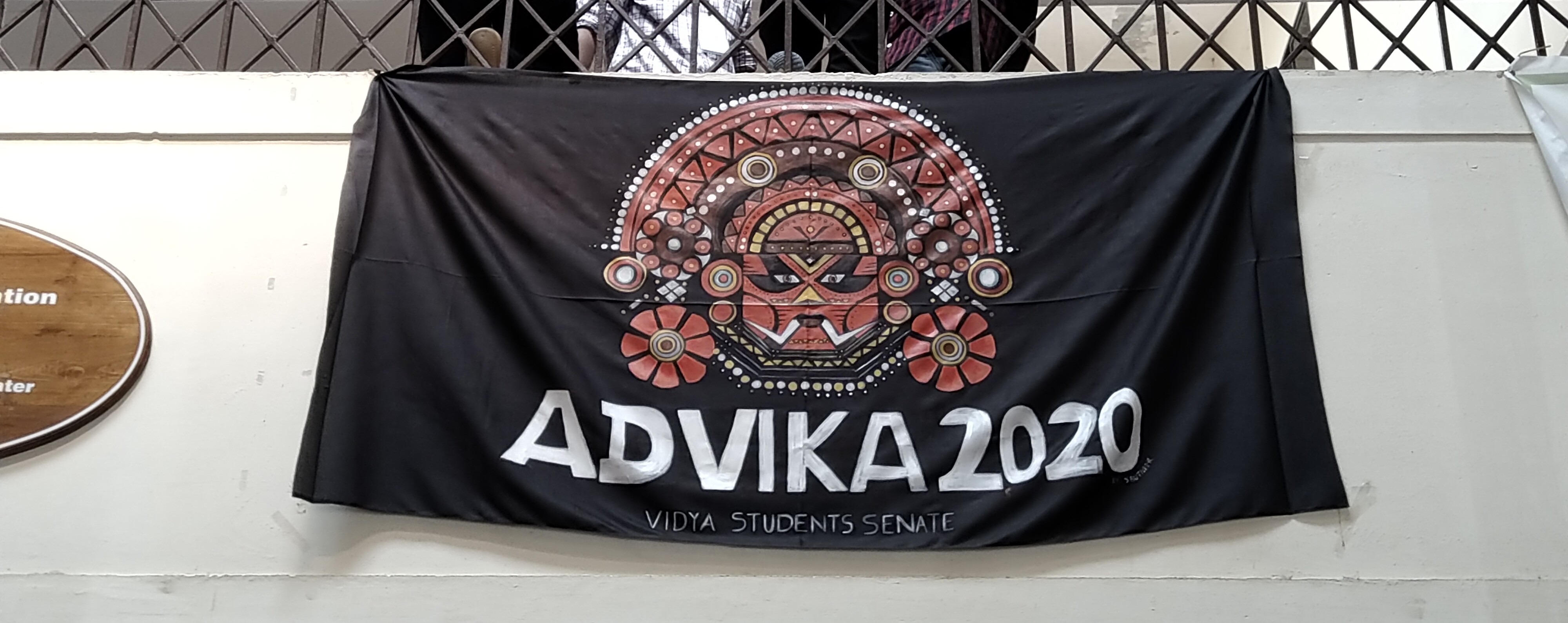 Advika 2020 Logo